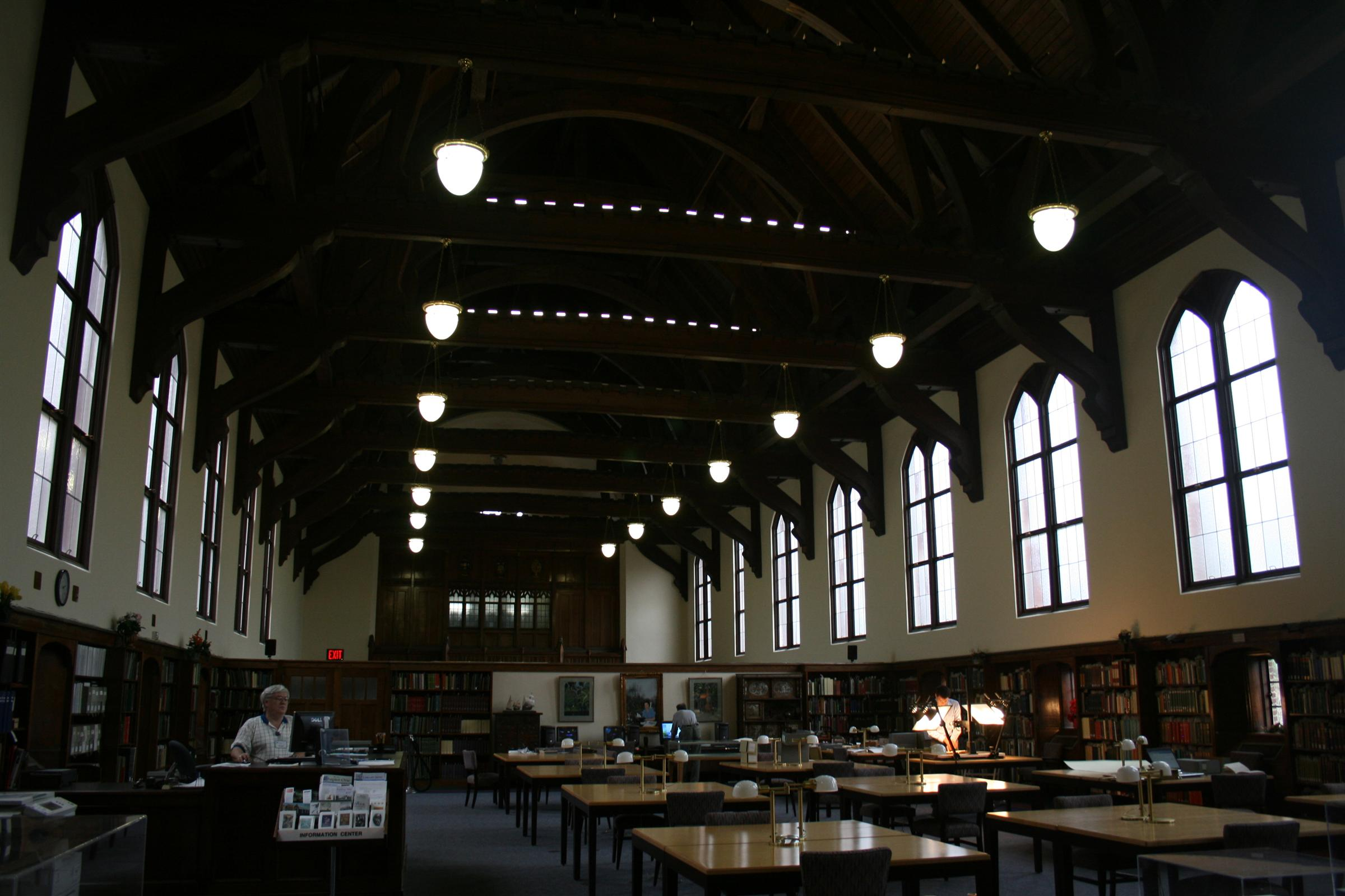 On 5 January 2007 I took pictures of most of the buildings on the UF campus that are designated National Historic Places. The only two buildings I didn't take pictures of are the Old WRUF station building and the Women's Gym. The day was overcast and about to rain so the skies aren't so great, but I think they get the job done. If I get any better shots of these buildings I'll upload them in place of the older ones. This message will be the same on all the images. --Douglas Whitaker 05:55, 6 January 2007 (UTC)